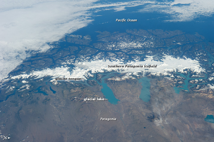 This grand panorama of the Southern Patagonia Ice Field was photographed by a crew member aboard the International Space Station (ISS) on a rare clear day in the southern Andes Mountains. With an area of 13,000 square kilometers (5,000 square miles), the ice field is the largest temperate ice sheet in the Southern Hemisphere. Storms that swirl into the region from the southern Pacific Ocean bring rain and snow (between 2 to 11 meters of rainfall per year), resulting in the buildup of the ice sheet. During the ice ages, these glaciers were far larger. Geologists now know that ice tongues extended far onto the plains in the foreground, completely filling the great Patagonian lakes on repeated occasions. Similarly, ice tongues extended into the dense network of fjords on the Pacific side of the ice field. Ice tongues today appear tiny compared what an “ice age” astronaut would have seen.